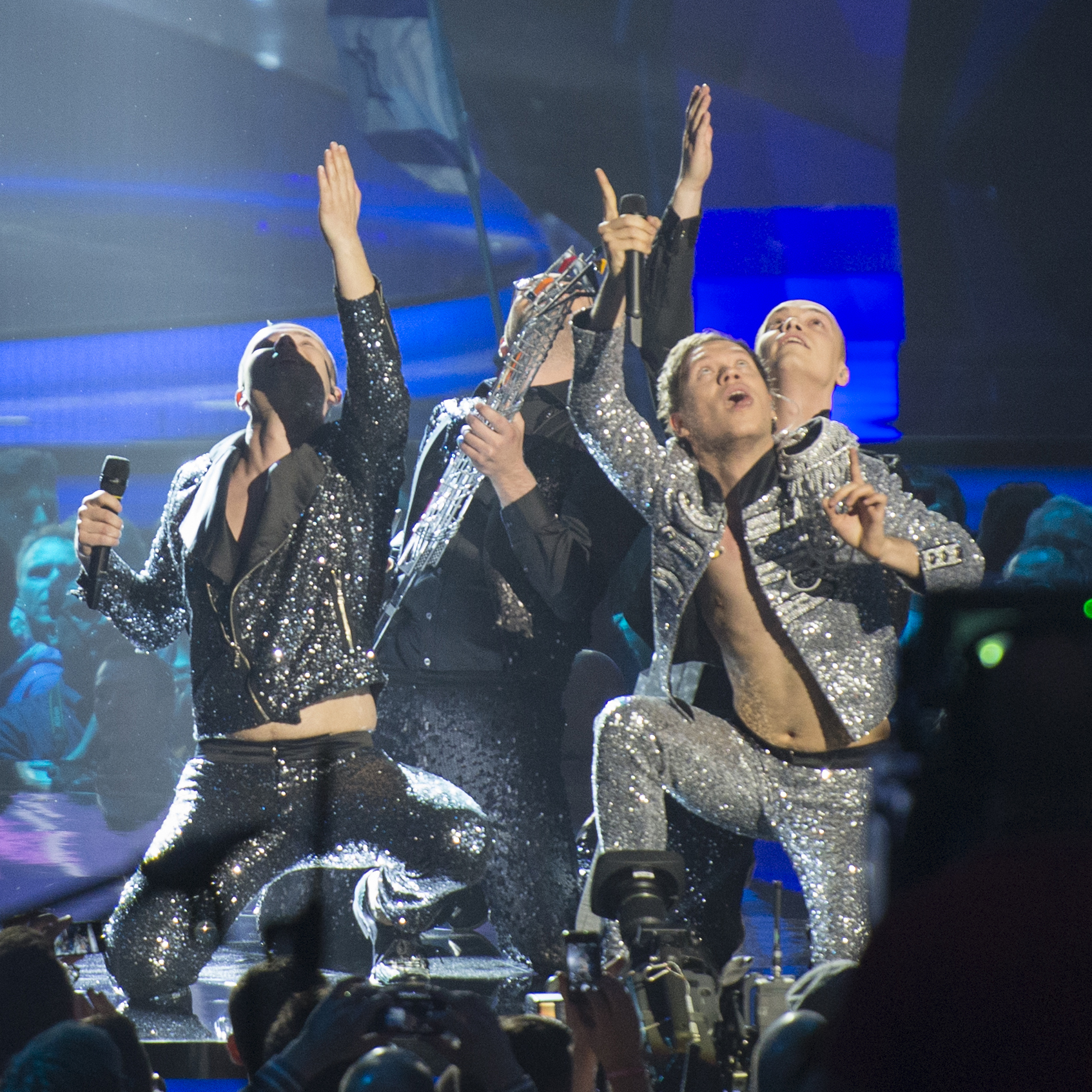 PeR representing Latvia with the song "Here We Go" during the second dress rehearsal of the second semi final of the Eurovision Song Contest 2013 in Malmö. (Help translate this text)